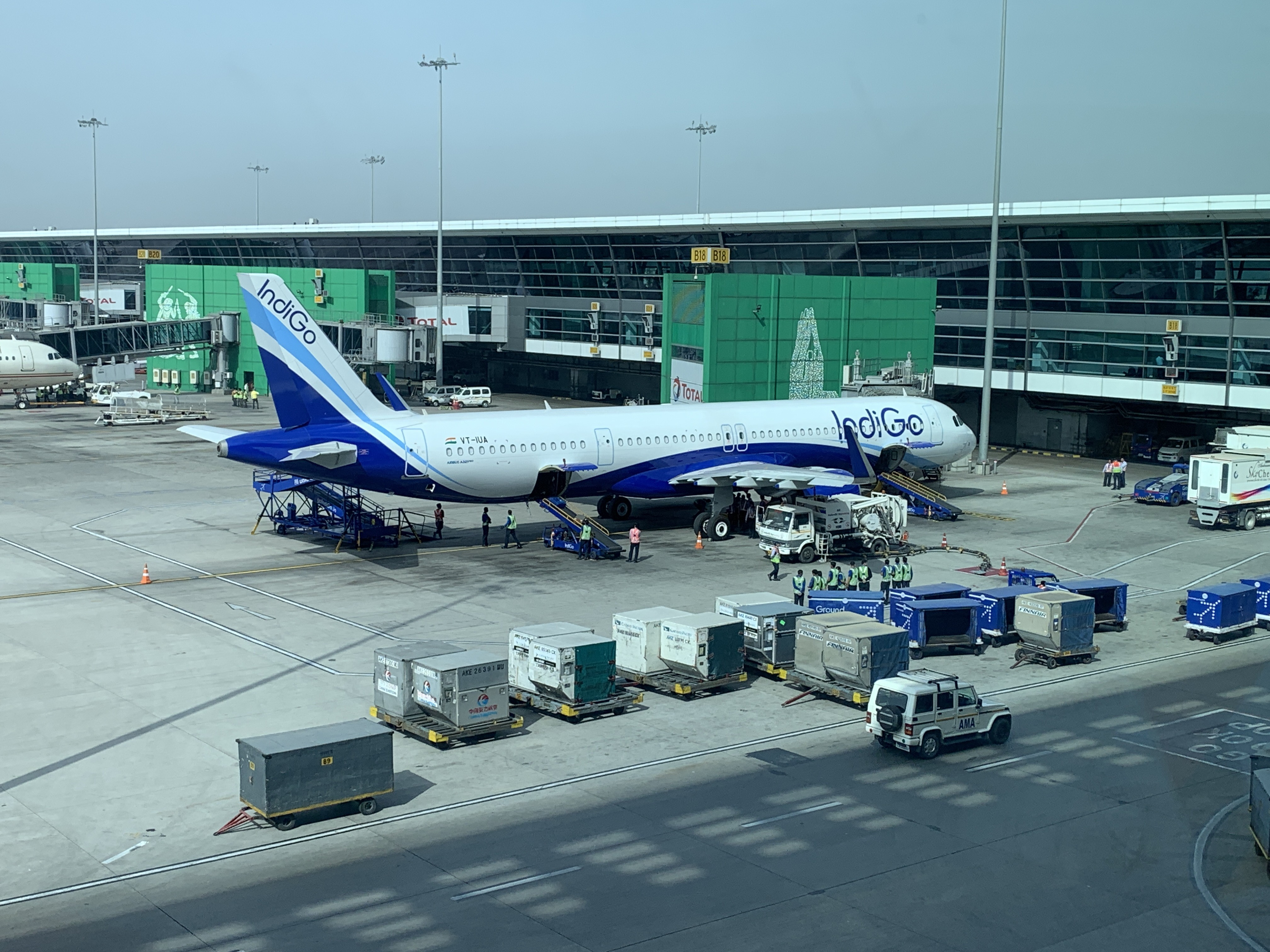 IndiGo's 1st A321neo landed in Indira Gandhi International Airport (Delhi) on December 29th 2018